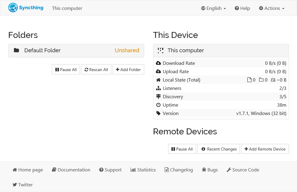 Syncthing's built in web interface, taken from the syncthing documentation repo.